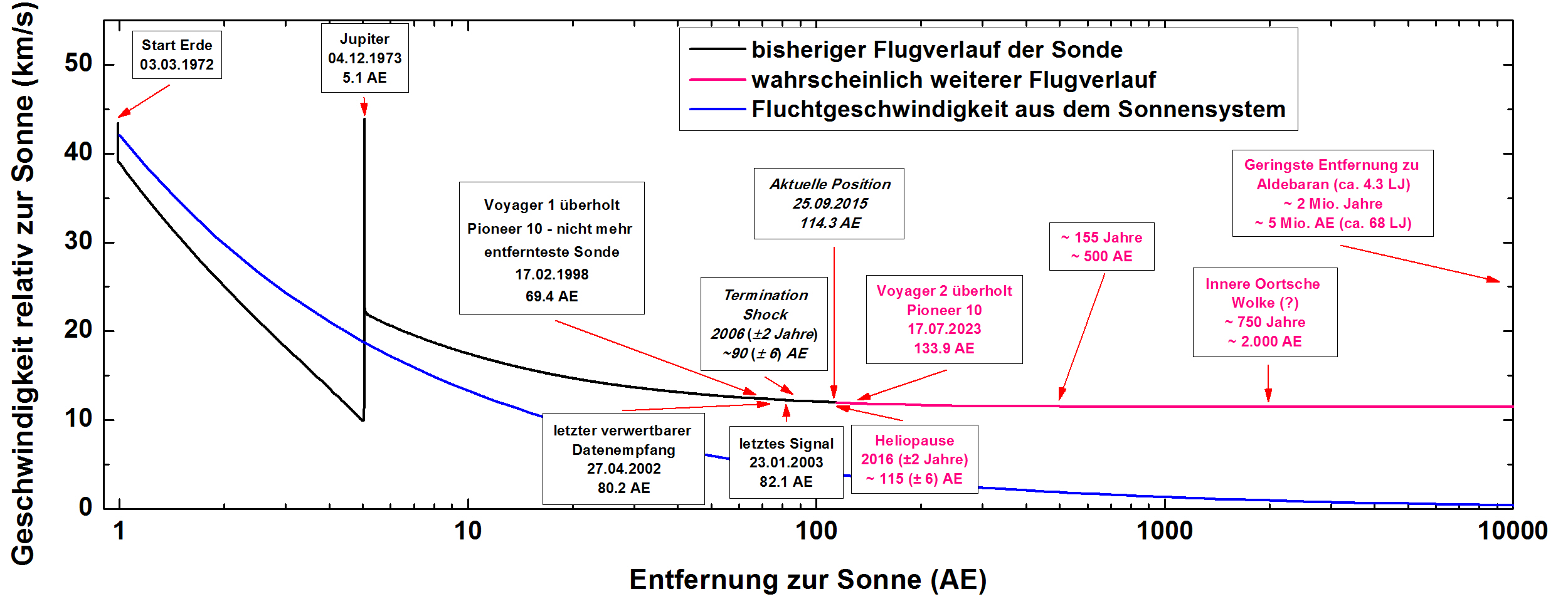 Past and future mission of the Pioneer 10 probe based on their velocity w.r.t. the sun